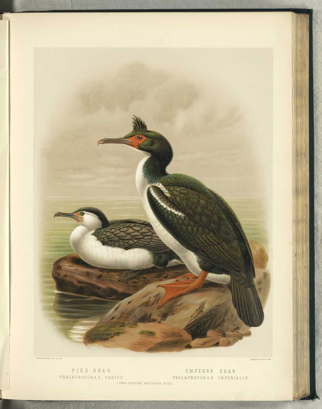 Illustration of the Pied Shag (Phalacrocorax varius) and the King Shag (Phalacrocorax carunculatus).